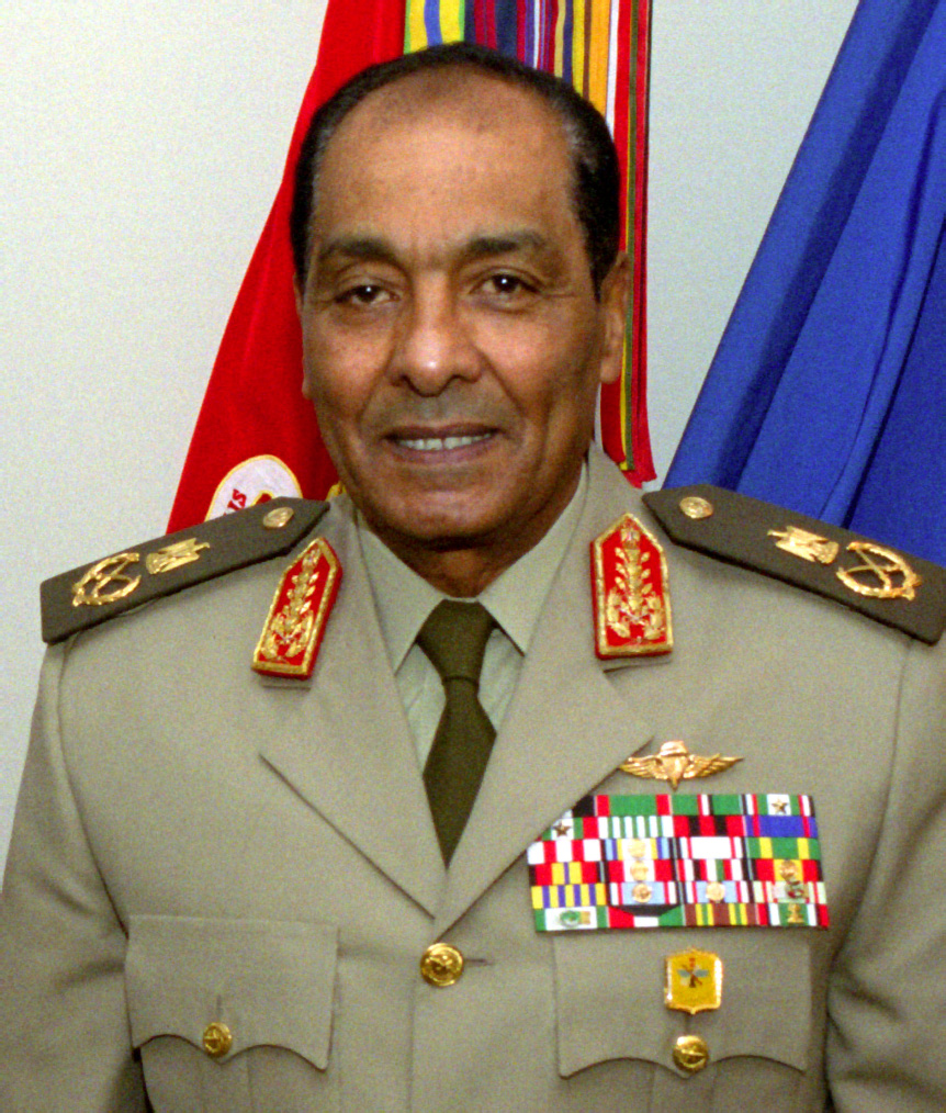 Field Marshal Mohamed Hussein Tantawi Soliman ( محمد حسين طنطاوى), Minister of Defense of Egypt.